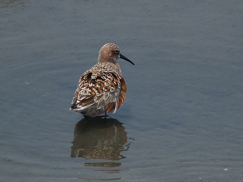 Calidris ferruginea（滸鷸）, Yunlin County, Taiwan, 2008.